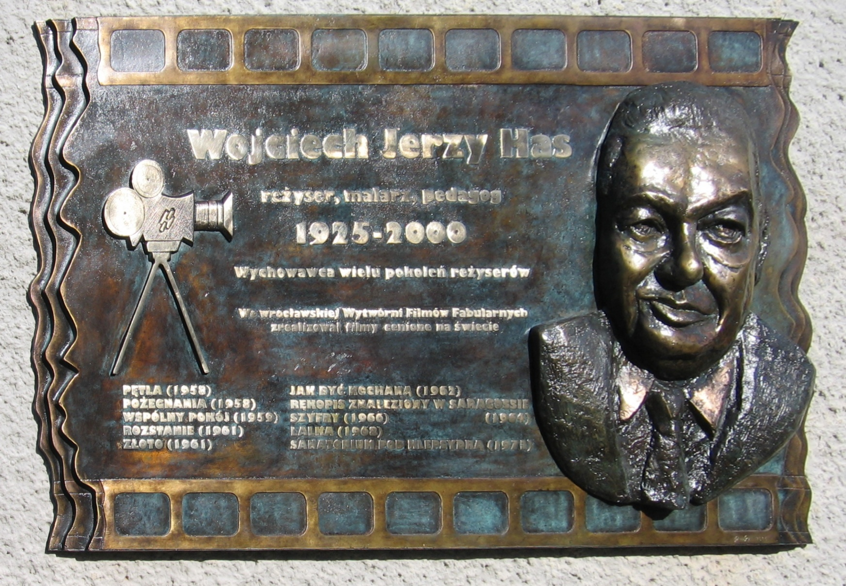 Wrocław, Poland - inscription in memory of film director Wojciech Jerzy Has on the wall of Feature Films Production building